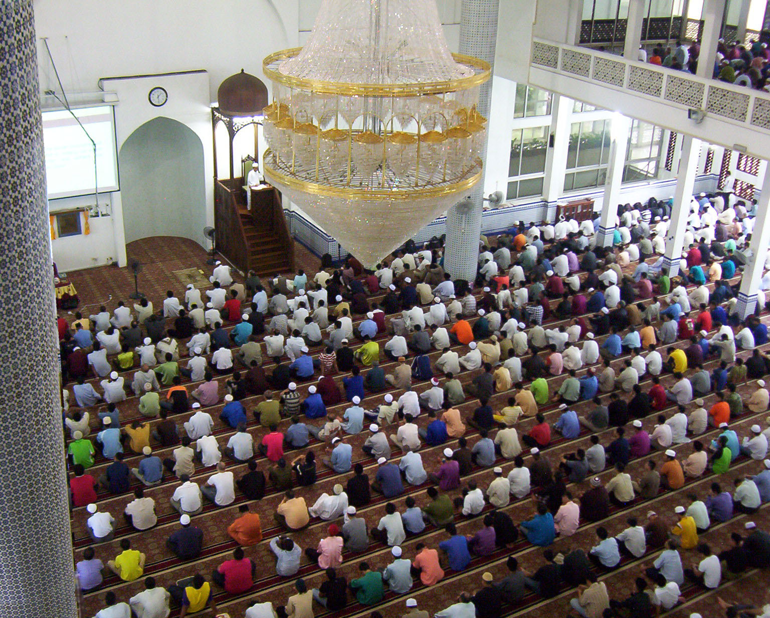 Universiti Teknologi Malaysia, Friday Praying